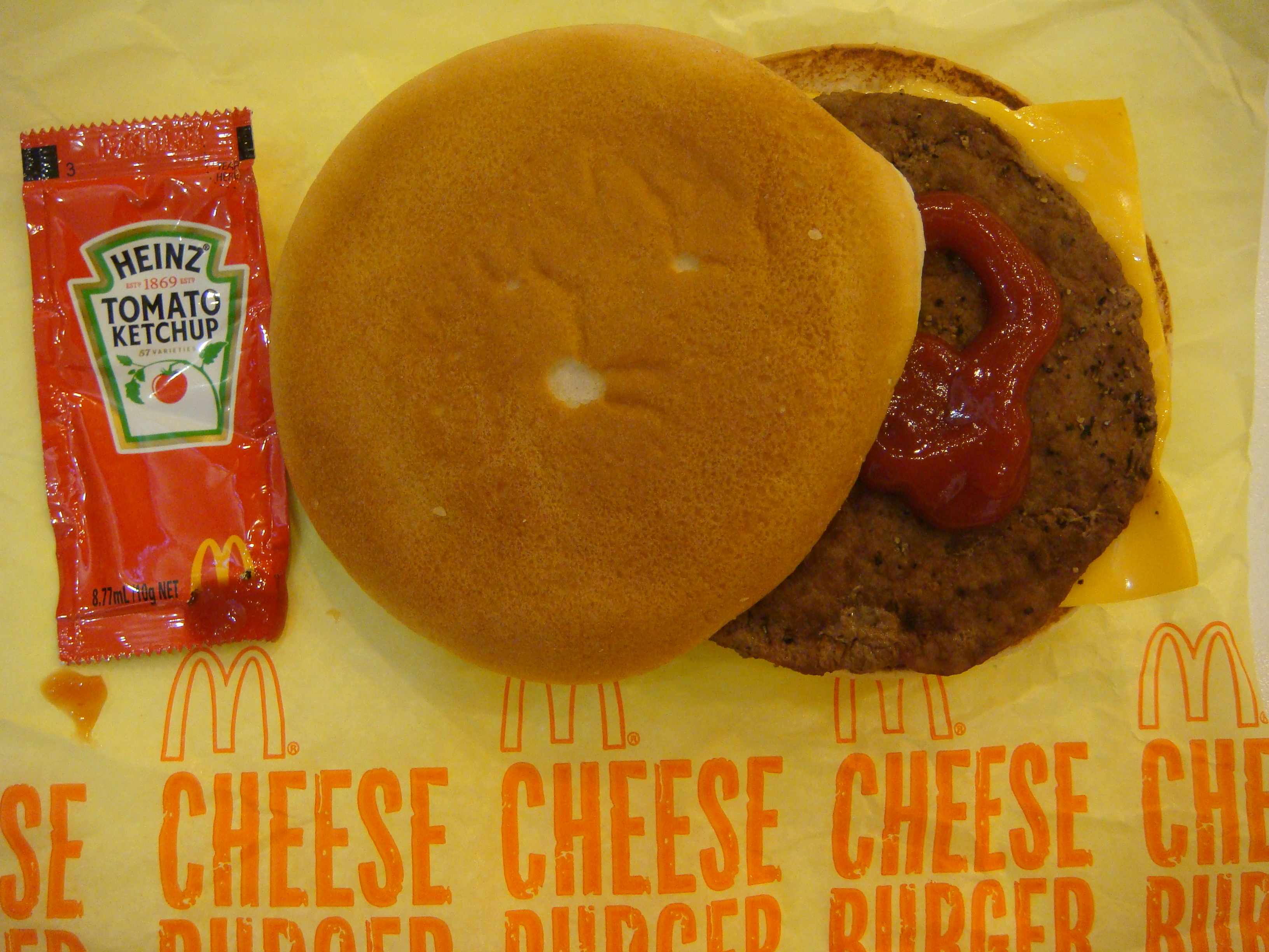 Cheeseburger, McDonald's